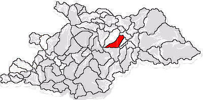 Map of Poienile commune in Maramureş County Romania